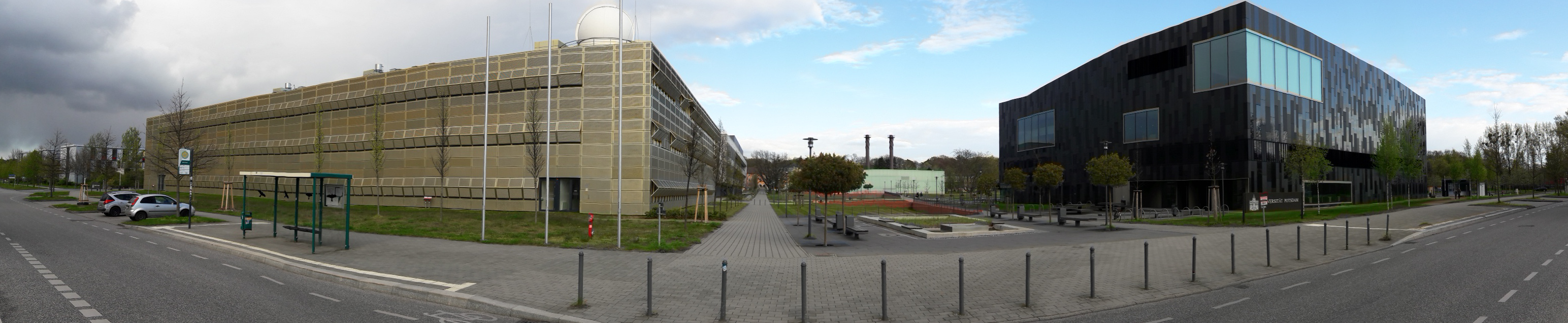 Campus Golm of Potsdam University as seen from the train station. The instute for physics and Astronomie is seen in center left and the Departmental Library in Golm - ICMC on the right in black.